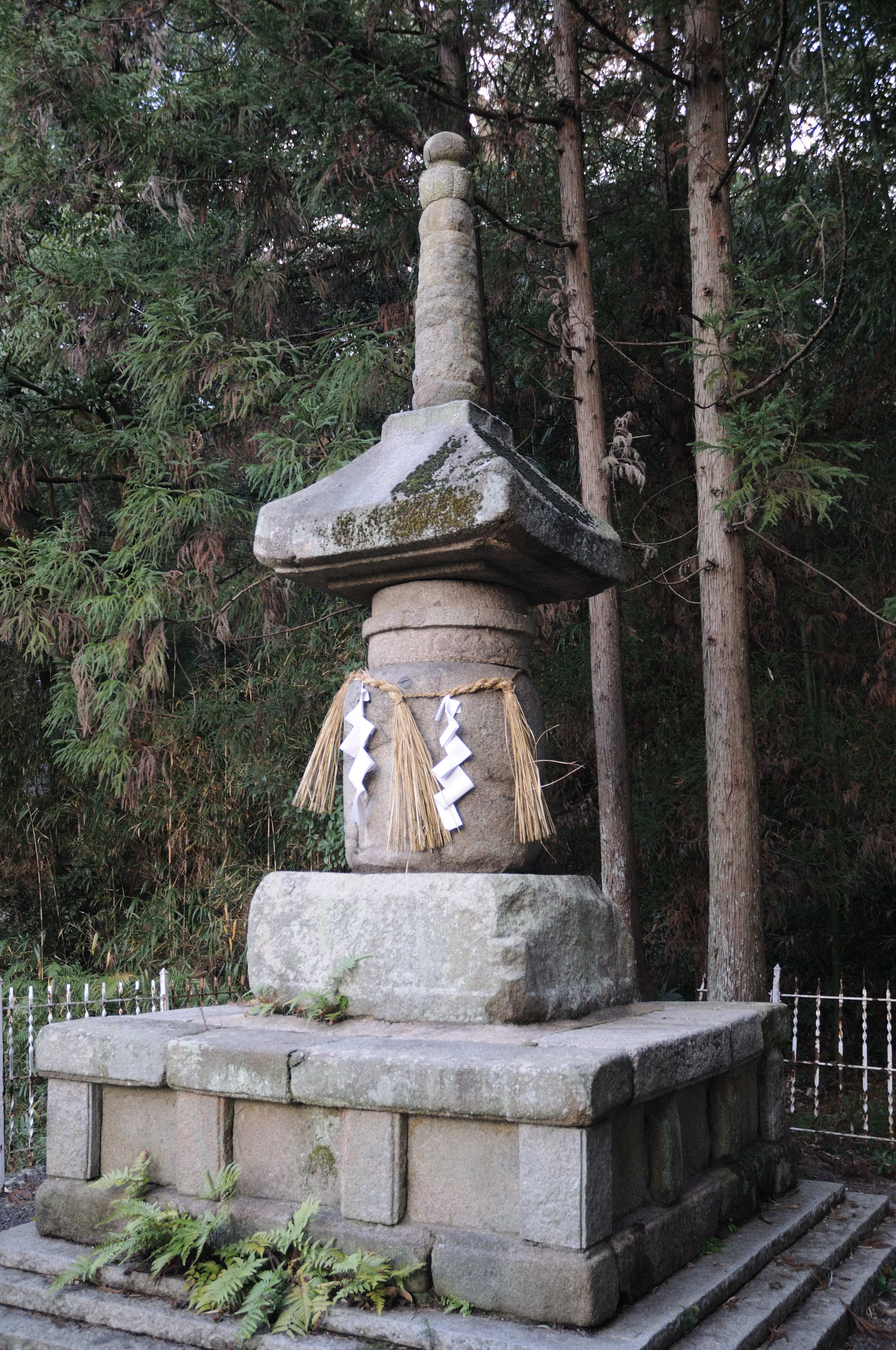 The stone pagoda built in 1240 as the monument of ex-Emperor Gotoba, Goryusonryu-in Temple, Kurashiki City, Okayama prefectue, Japan(Japan's national important cultural property)